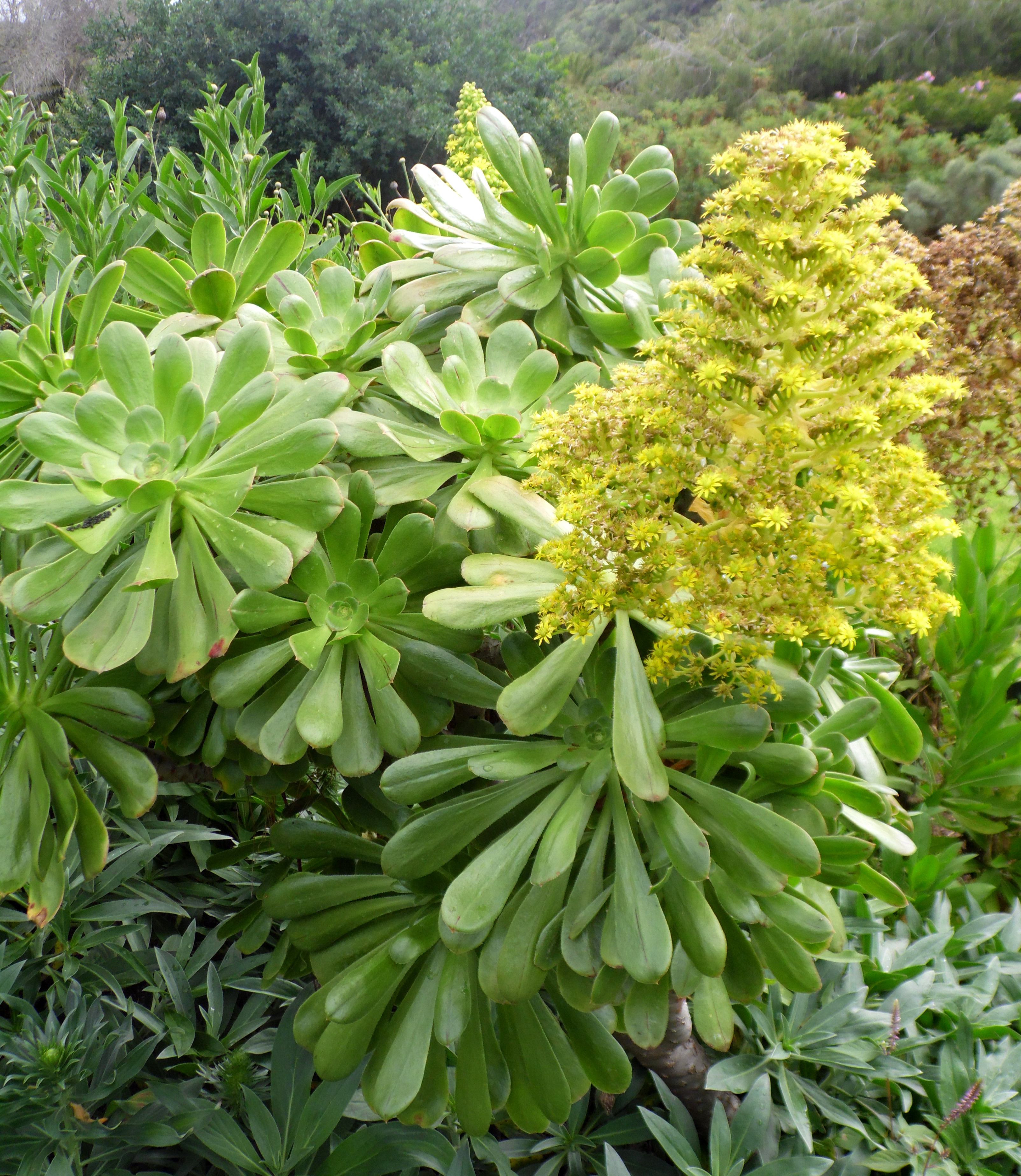 Aeonium hierrense in Jardín Botánico Canario Viera y Clavijo